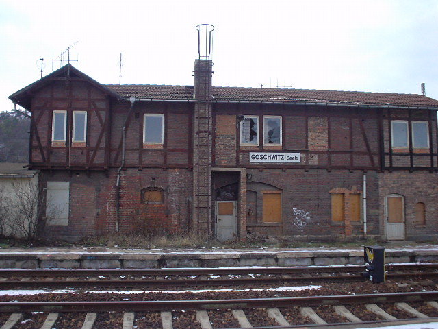 Part of Göschwitz (Saale) Station, Jena, Germany.